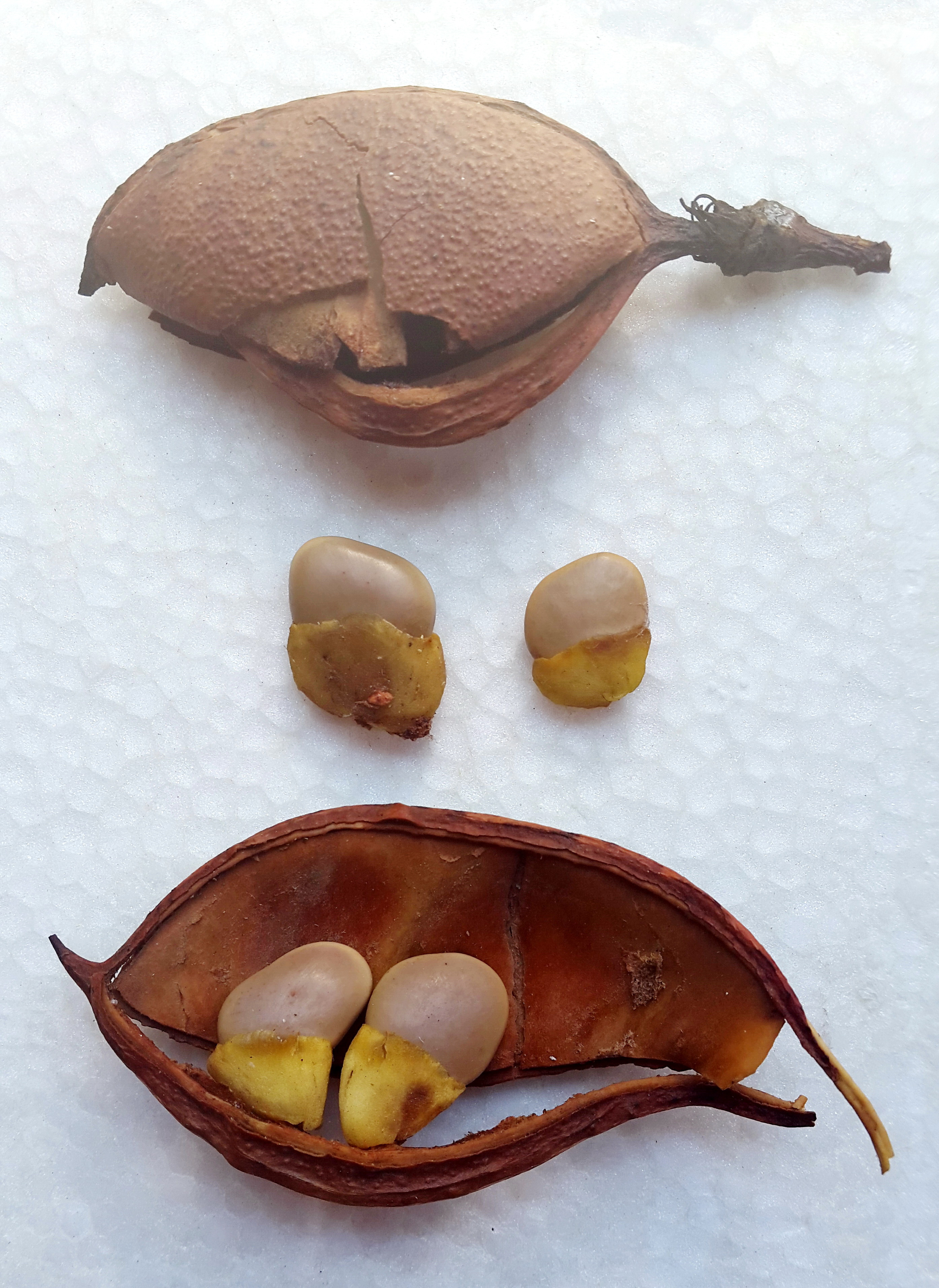 Pods and seeds of Schotia brachypetala Sond. - Honeydew, Johannesburg, South Africa